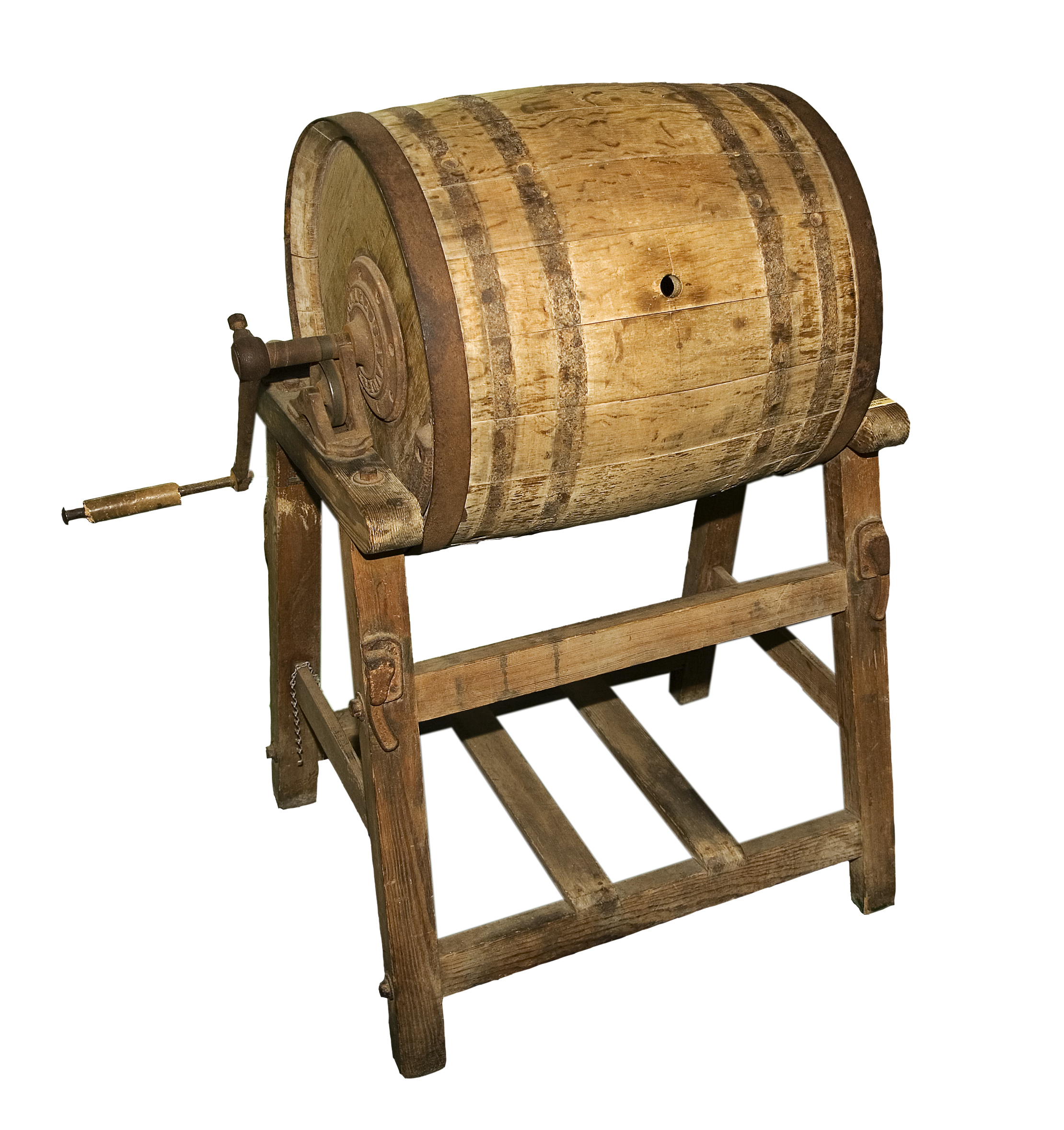 Butter churn, marked Waide & Son, Leeds.